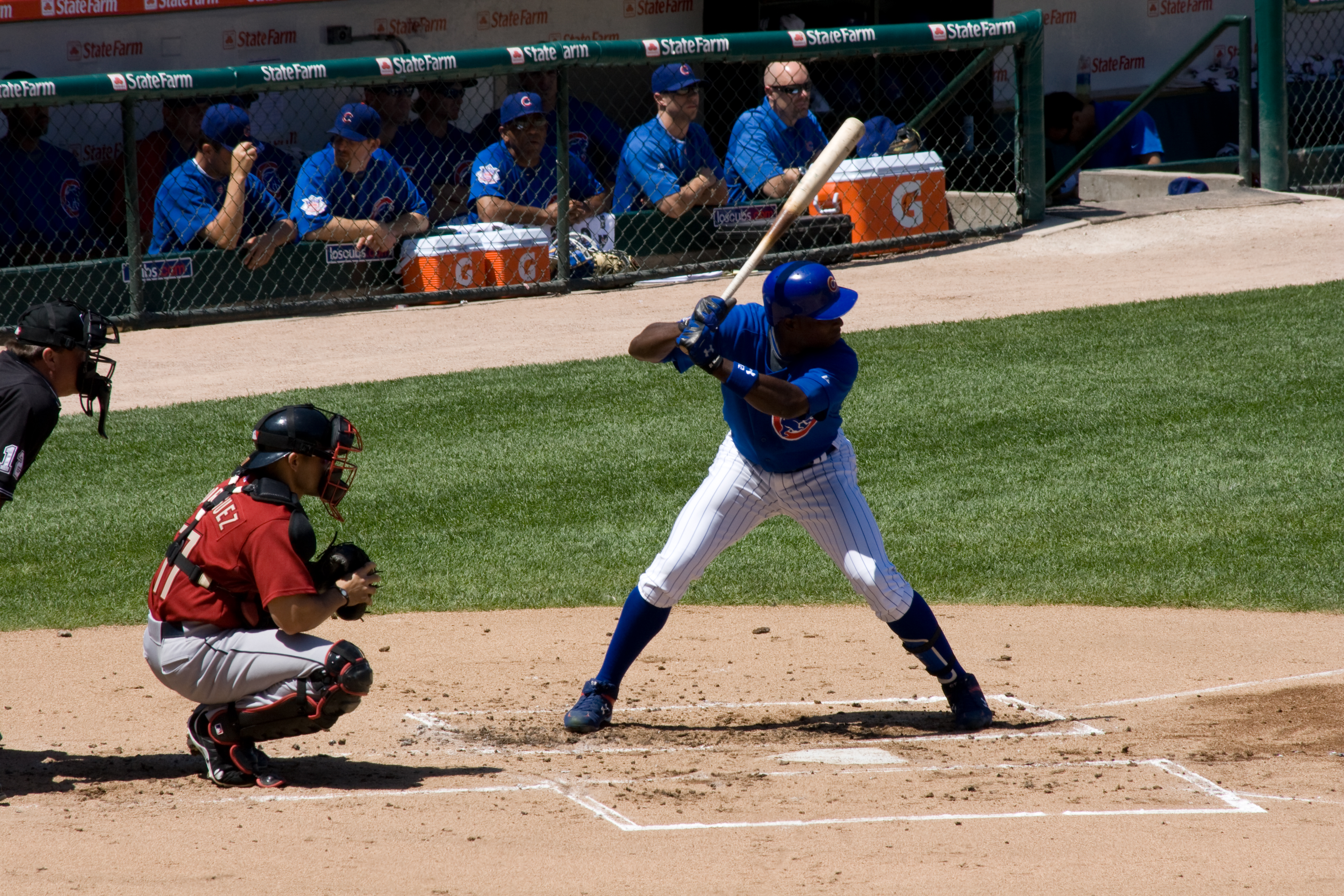 Alfonso Soriano of the Chicago Cubs - 2009-07-29